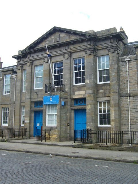 Territorial Army Drill Hall, 89 East Claremont Street. One of the few remaining T.A. Drill Halls in Edinburgh. Volunteers reported to drill halls like this one when war broke out in 1939. During the early years of the Edinburgh Military Tattoo in the 1950s, troopers of the Household Cavalry and La Garde républicaine were billeted here while their horses were stabled nearby 1462737. In the same decade, it was also the venue for annual Christmas parties held for the children of Royal Mail postal workers.